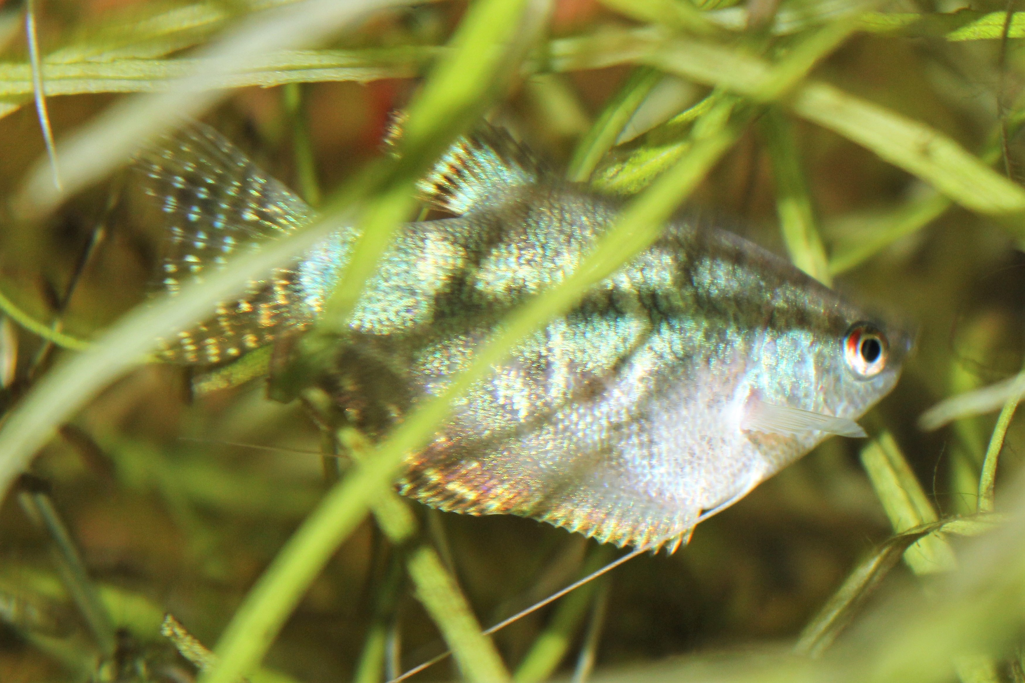 Gymnocorymbus bondi in Nagyvárad Zoo, Transylvania.